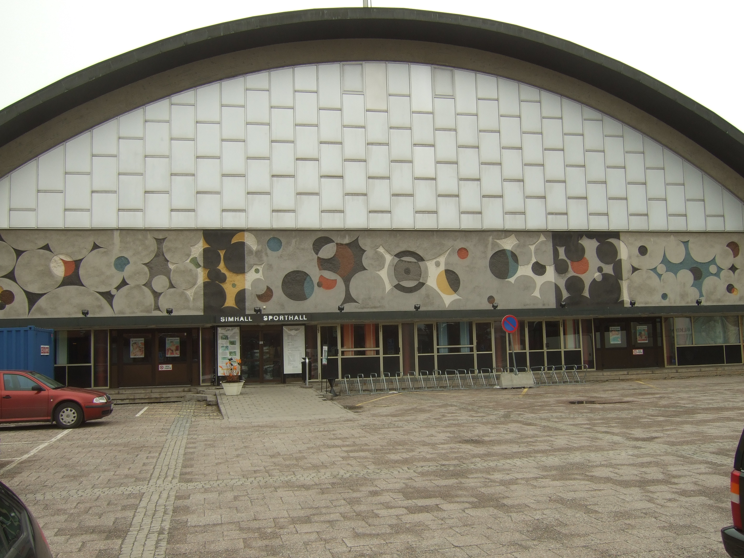 The sports venue "Sporthallen" at Universitetsallén 11 in Sundsvall, main entrance with sgraffito drawing by Pierre Olofsson (1921-1996)